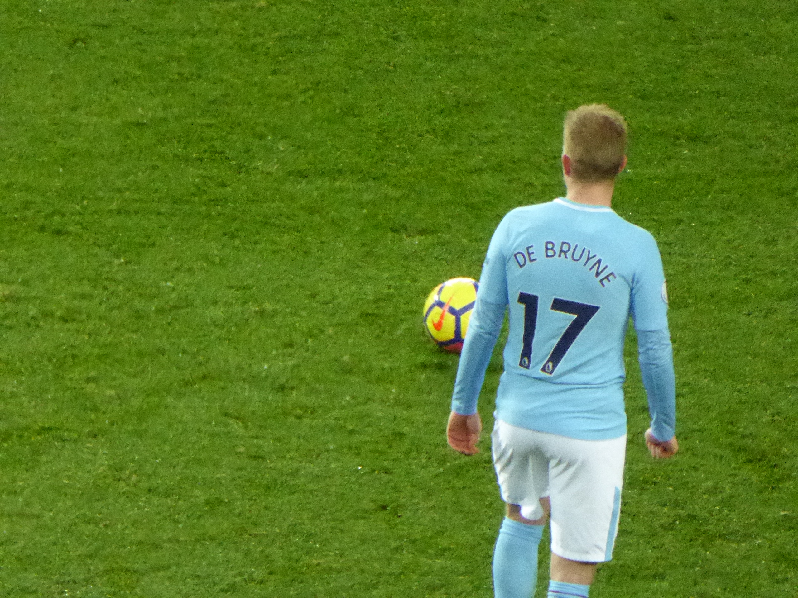 Manchester United v Manchester City (1-2), Premier League, Old Trafford, Manchester, Greater Manchester, England, 10 December 2017